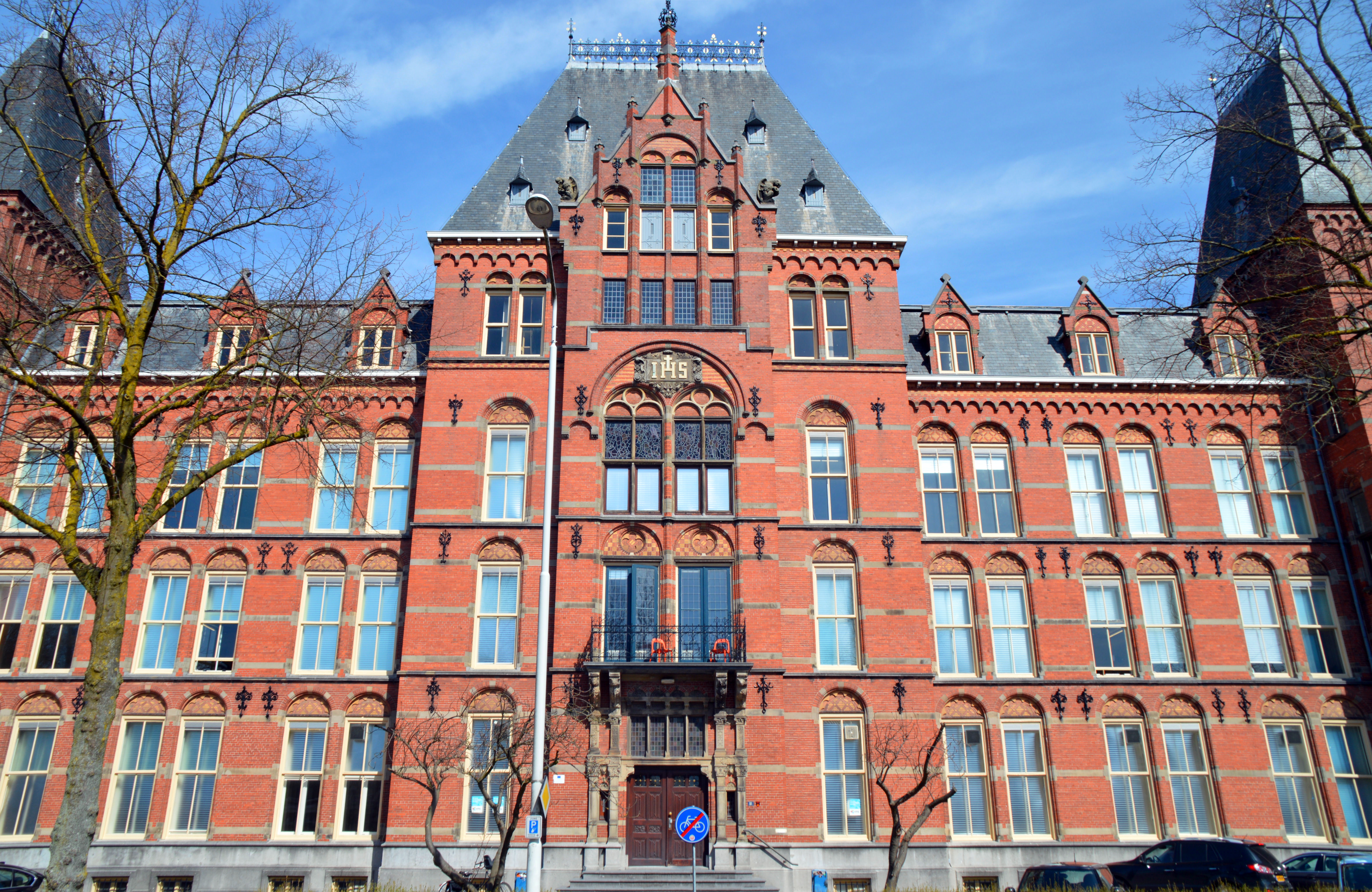 Canisius College (boarding) Nijmegen Nicolaas Molenaar Frontage